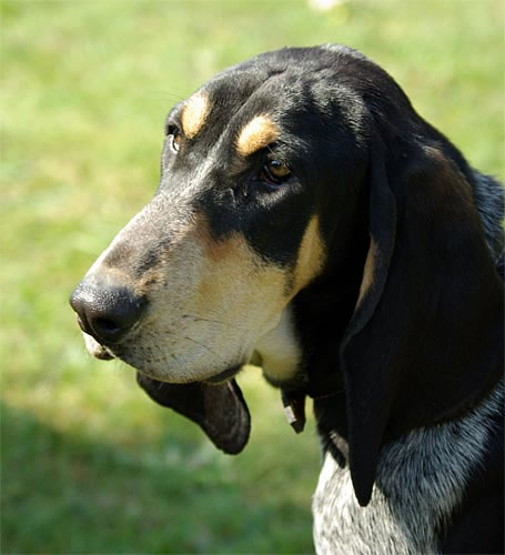 Small Blue Gascony Hound, female "Clea z Beckova" from husbandry "Le Bleu Cardinalis FCI", Poland. The owner - Katarzyna Bujko